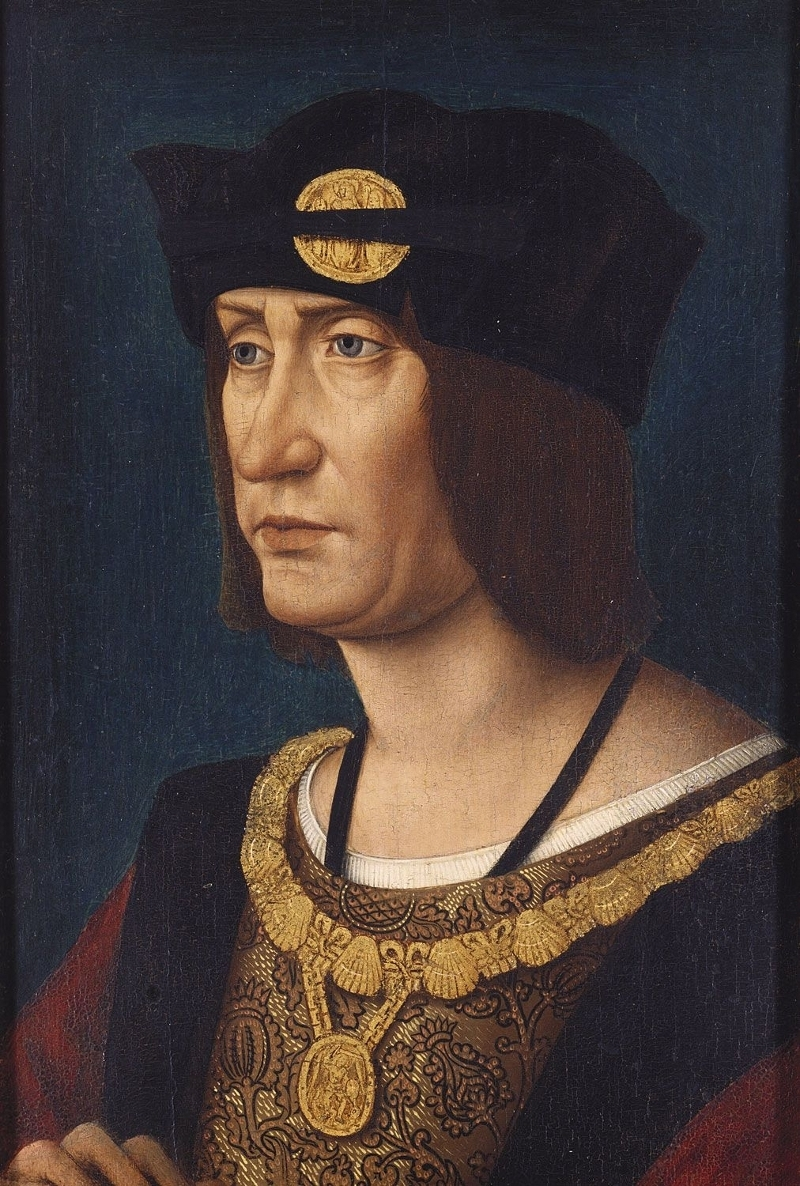 Portrait of Louis XII of France, painting in Windsor Castle